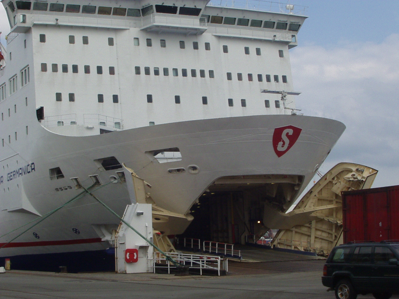 Open clam bow doors of MS Stena Germanica